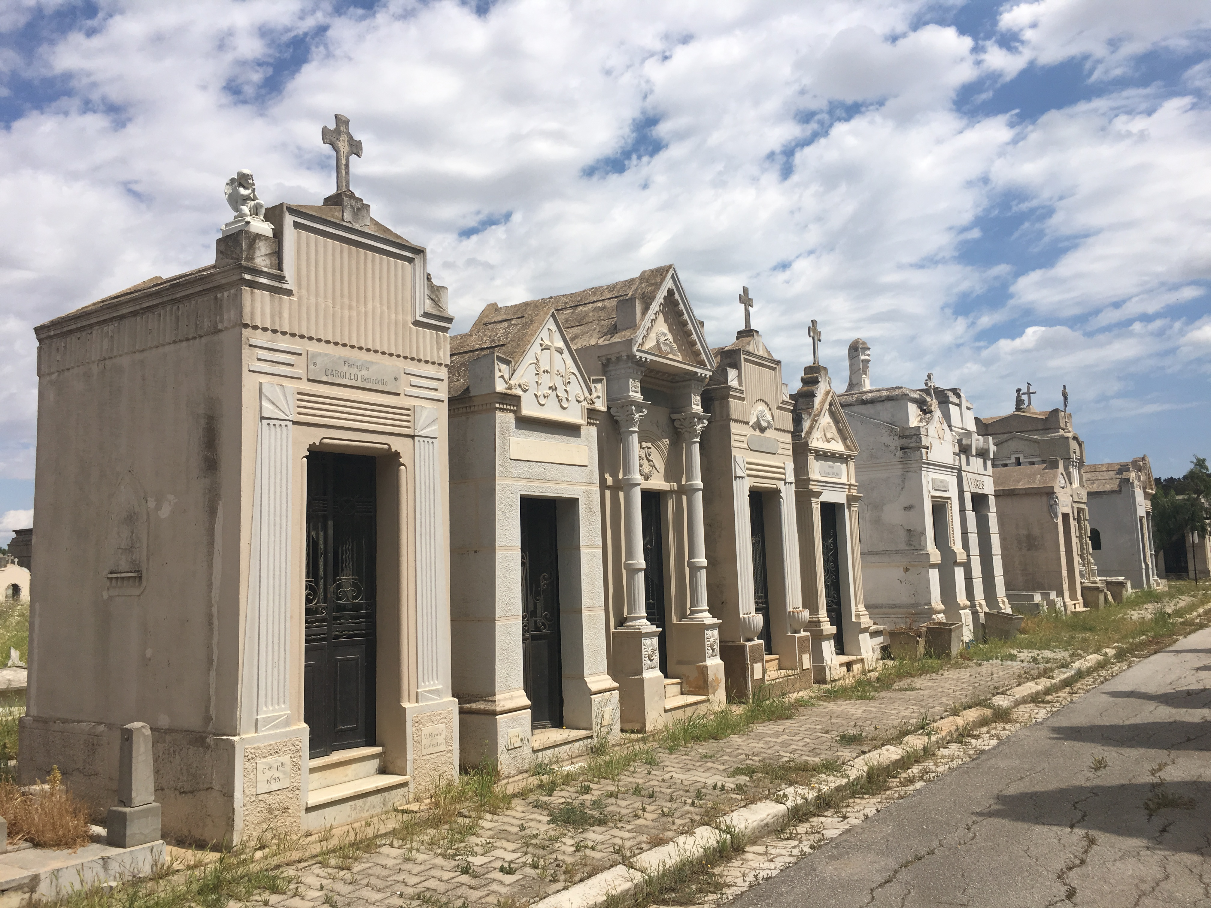 Borgel christian cemetery